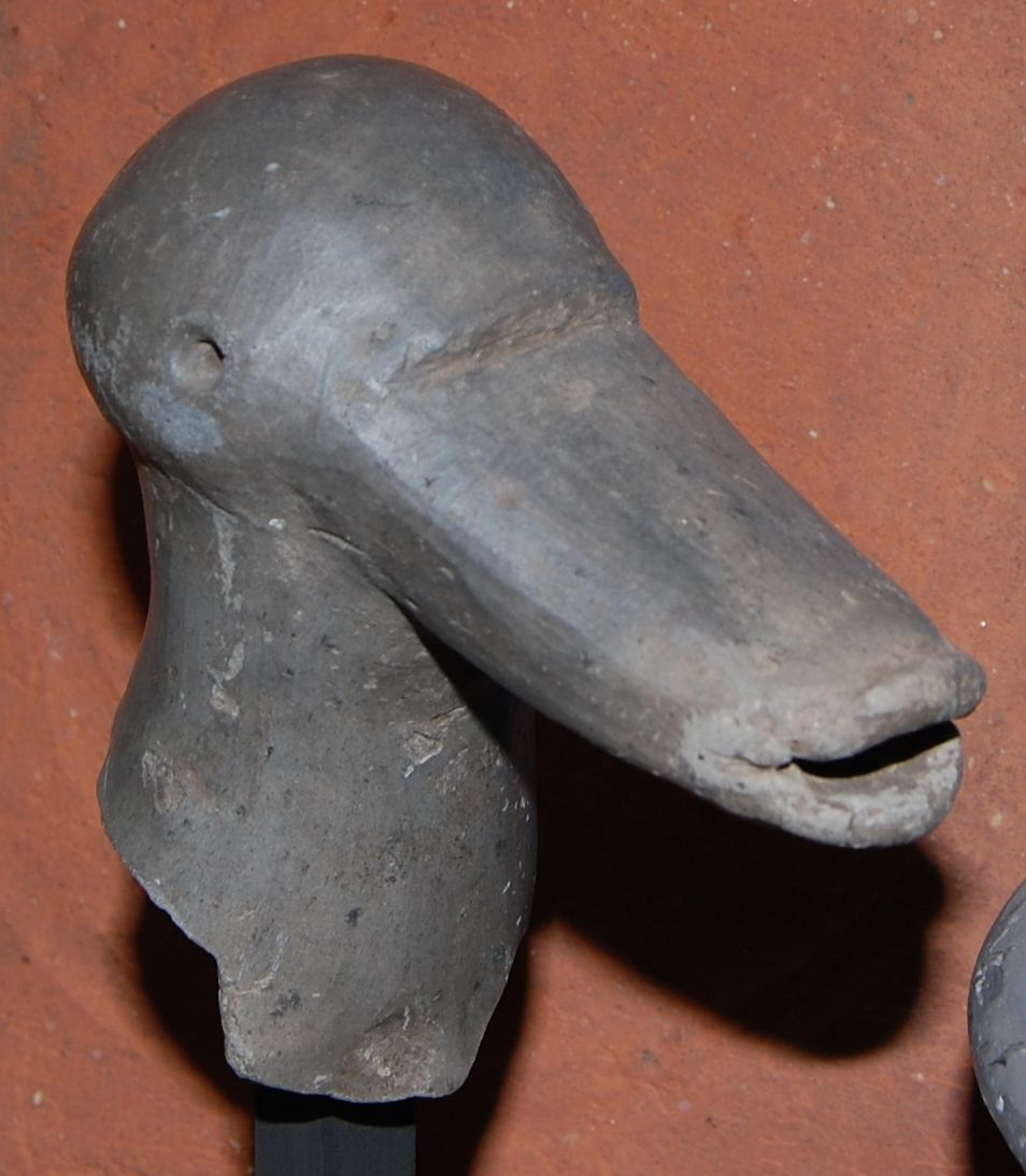 Roman spout in shape of a Duck's head, found at Derby racecourse and now at Derby Museum and Art Gallery. Taken during GLAMDerby Backstage Pass.